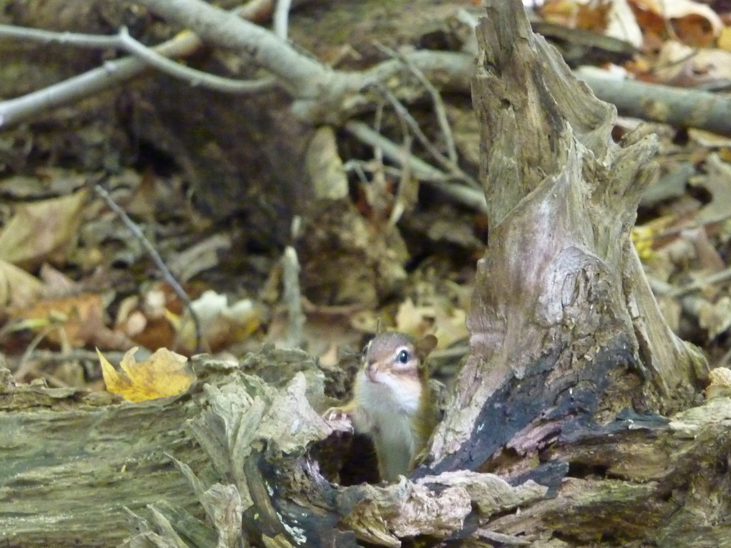 Griffy Woods, one of the properties of the Indiana University Research and Teaching Preserve